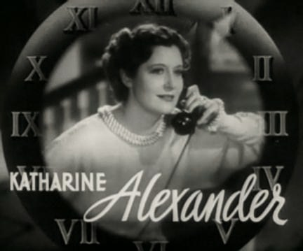 Katharine Alexander in After Office Hours (1935) - trailer (cropped screenshot)